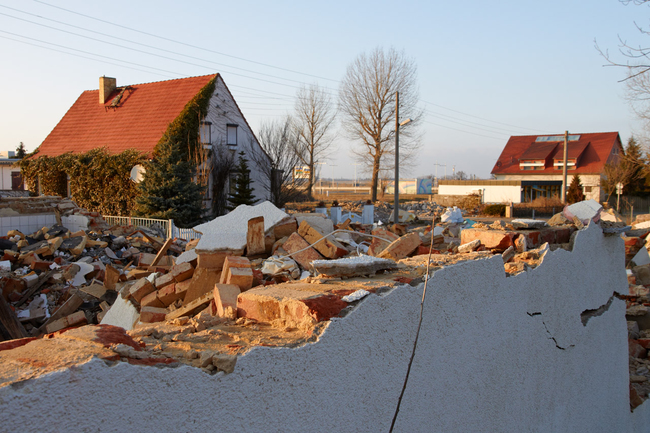 Kursdorf in Saxony is a village surrounded by the LEJ-Airport, trainpath and freeway. So it fades away.